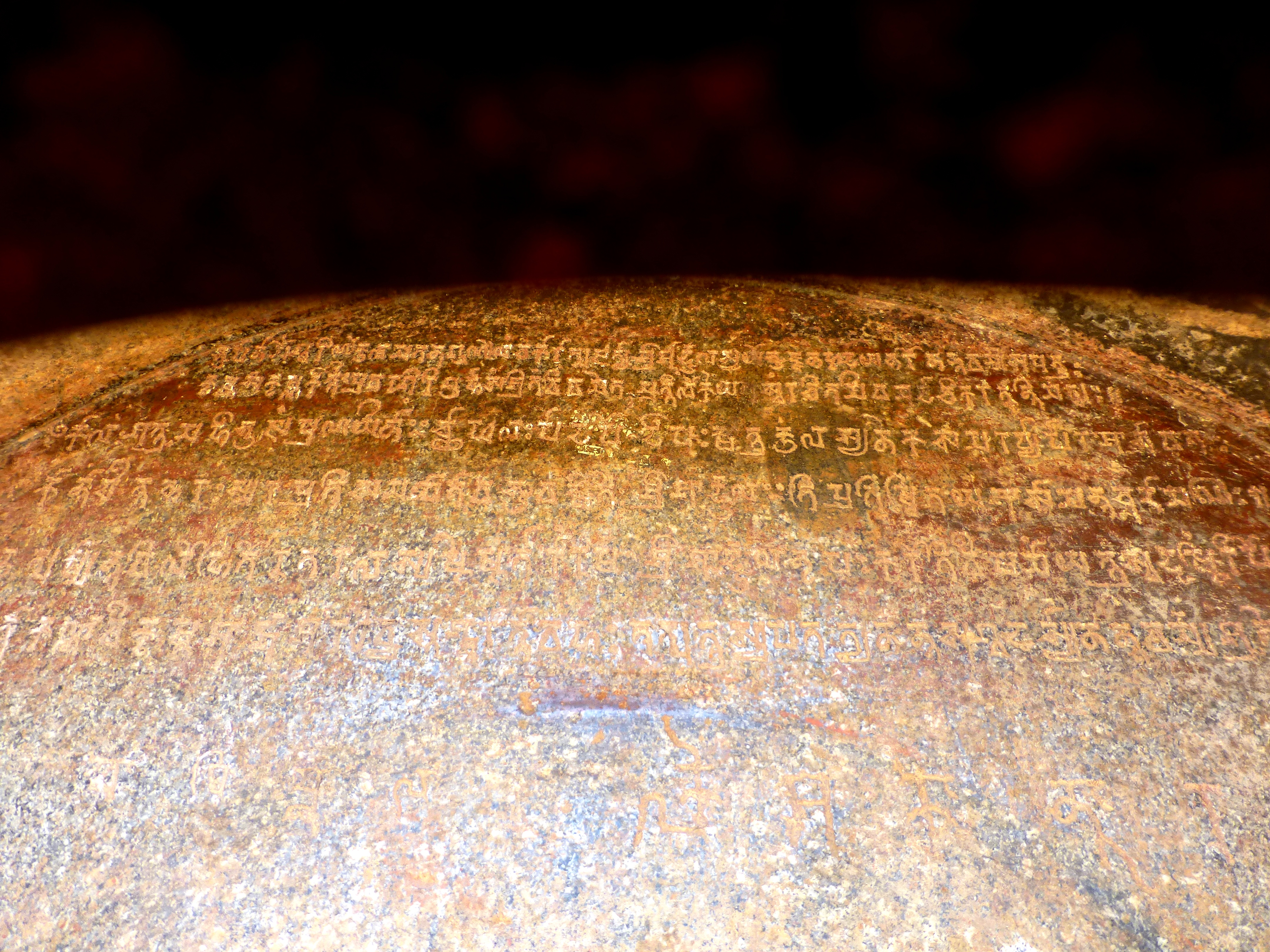 062 Lomas Rishi Cave Inscription at Barabar, Bihar (appears over the door at the entrance) Photograph from the Barabar Caves in Bihar taken by Anandajoti. Inscription of Antanavarman, 5-6th century CE: “Om! He, Anantavarman who was the excellent son, captivating the hearts of mankind, of the illustrious Sardula, {and) who, possessed of very great virtues, adorned by his own (high) birth the family of the Maukhari kings,— he, of unsullied fame, with joy caused to be made, as if it were his own fame represented in bodily form in the world, this beautiful image, placed in (this) cave of the mountain Pravaragiri, of (the god) Krishna. (Line 3.)--The illustrious Sardula, of firmly established fame, the best among chieftains, became the ruler of the earth; -he who was a very Death to hostile kings; who was a tree, the fruits of which were the (fulfilled) wishes of (his) favourites; who was the torch of the family of the warrior caste, that is glorious through waging many battles; (and) who, charming the thoughts of lovely women, resembled (the god) Smara. (L. 5.)— On whatsoever enemy the illustrious king Sardula casts in anger his scowling eye, the expanded and tremulous and clear and beloved pupil of which is red at the corners between the uplifted brows,— on him there falls the death-dealing arrow, discharged from the bowstring drawn up to (his) ear, of his son, the giver of endless pleasure, who has the name of Anantavarman.” —Corpus Inscriptionum Indicarum, Fleet p.223